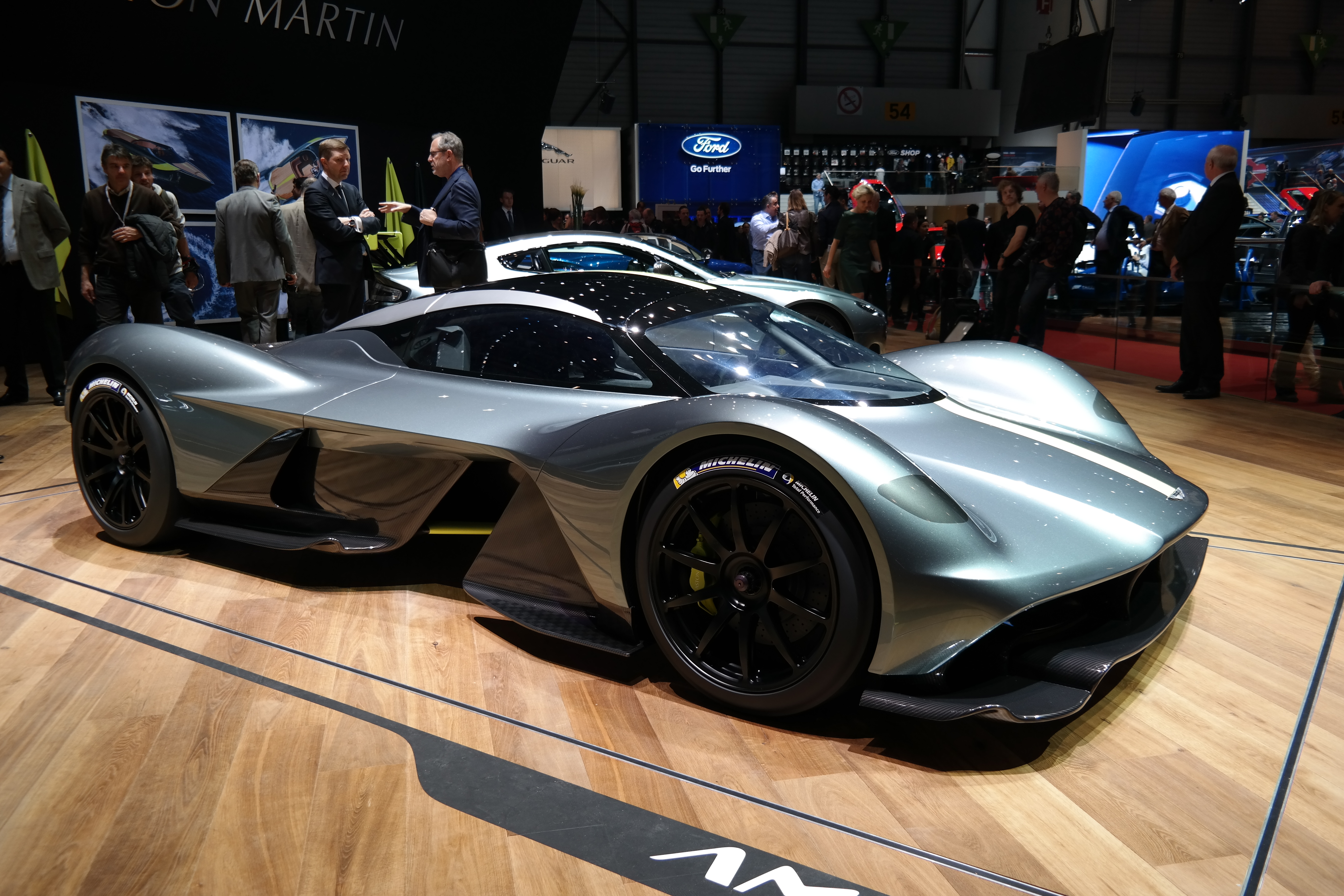 Geneva Motor Show 2017 (photo taken on the first press day)